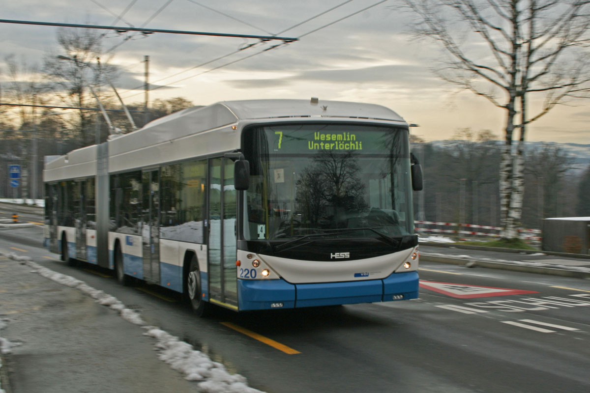 A Hess/Vossloh-Kiepe Swisstrolley 3 in Lucerne, Oberlöchli